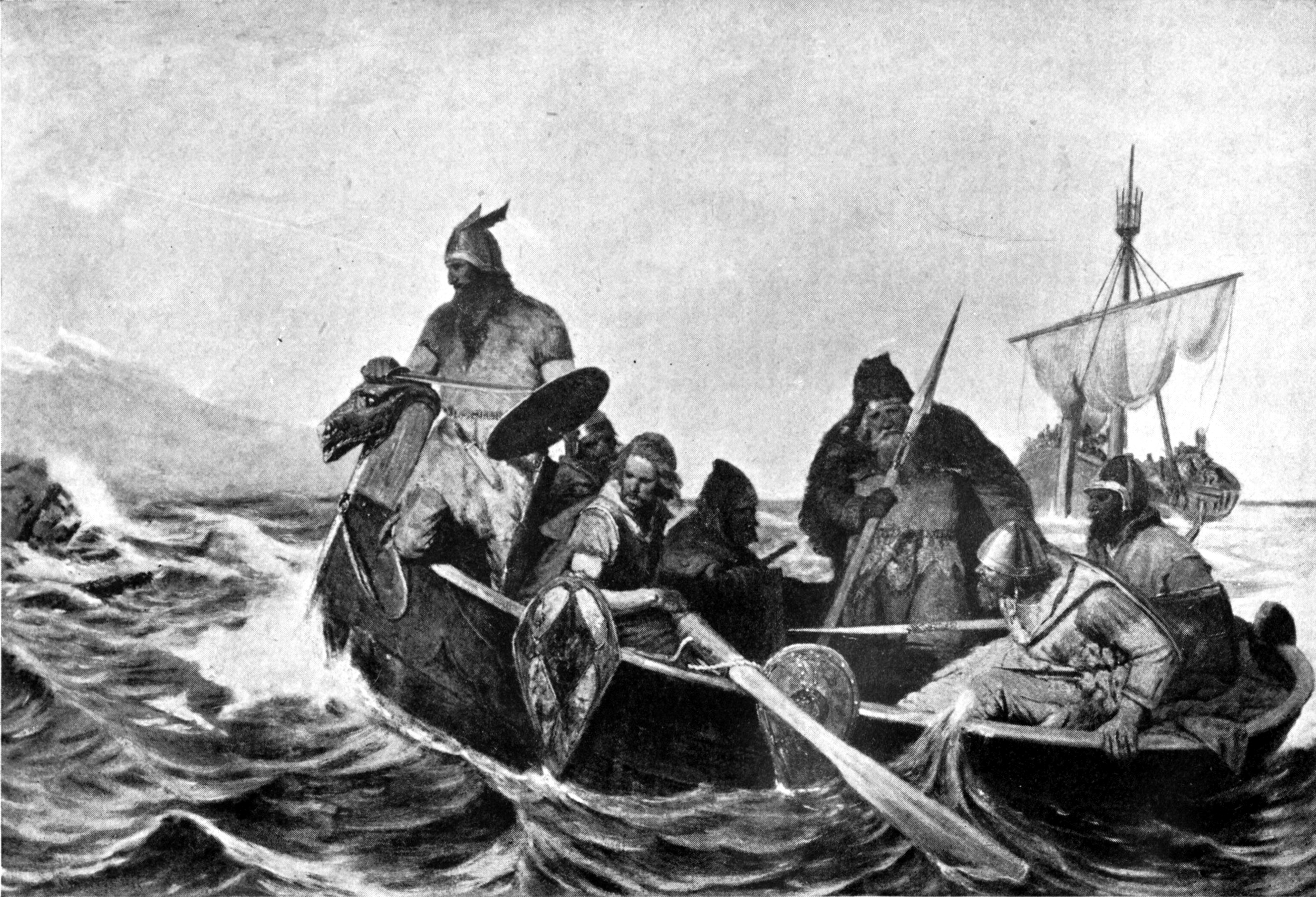 A black-and-white reproduction of a painting showing Norsemen in a ship. The list of illustrations on page vii gives this one the title Norsemen Landing in Iceland'.